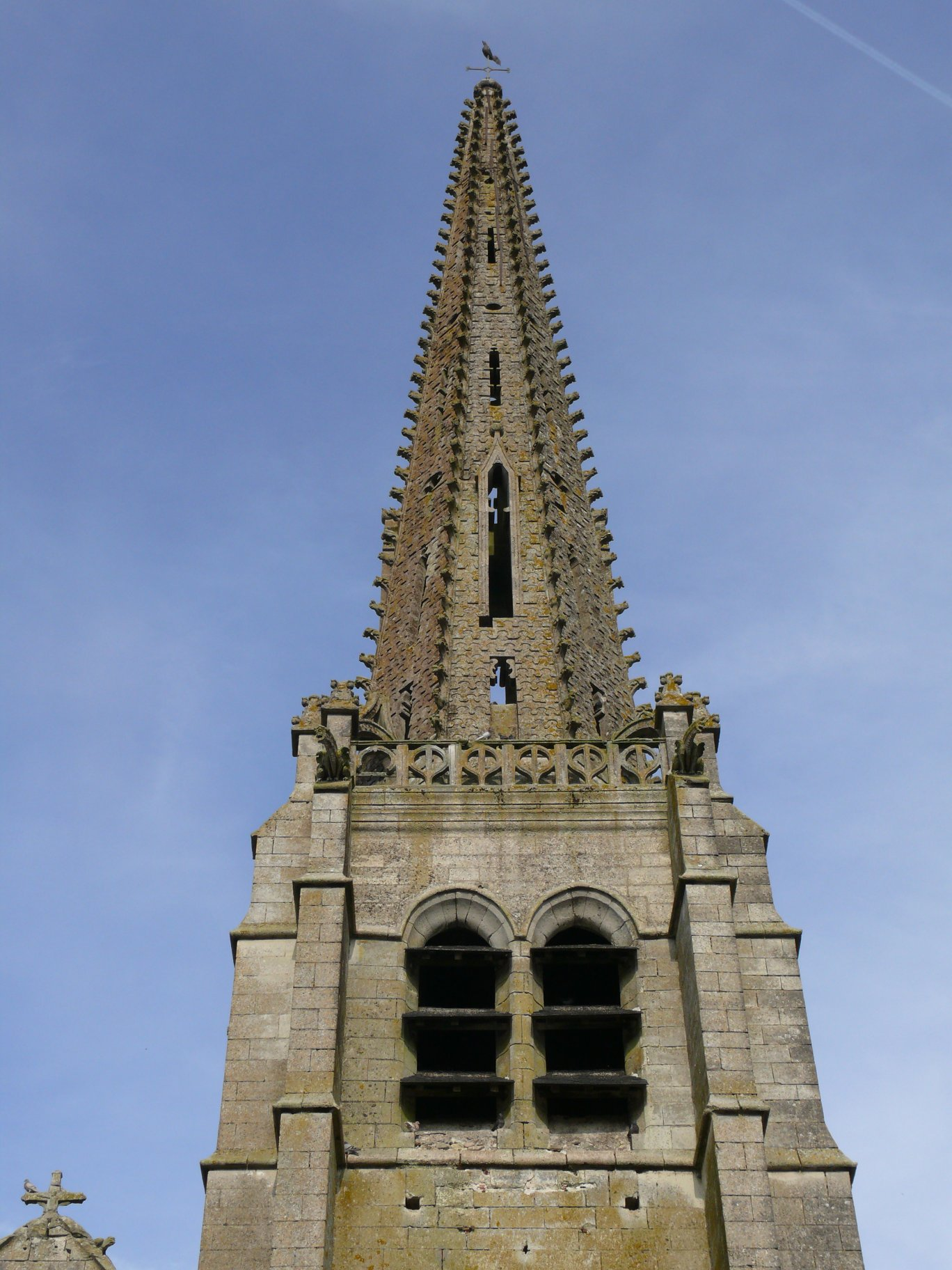 Sainte-Felicite's church of Montagny-Sainte-Félicité (Oise, Picardie, France).